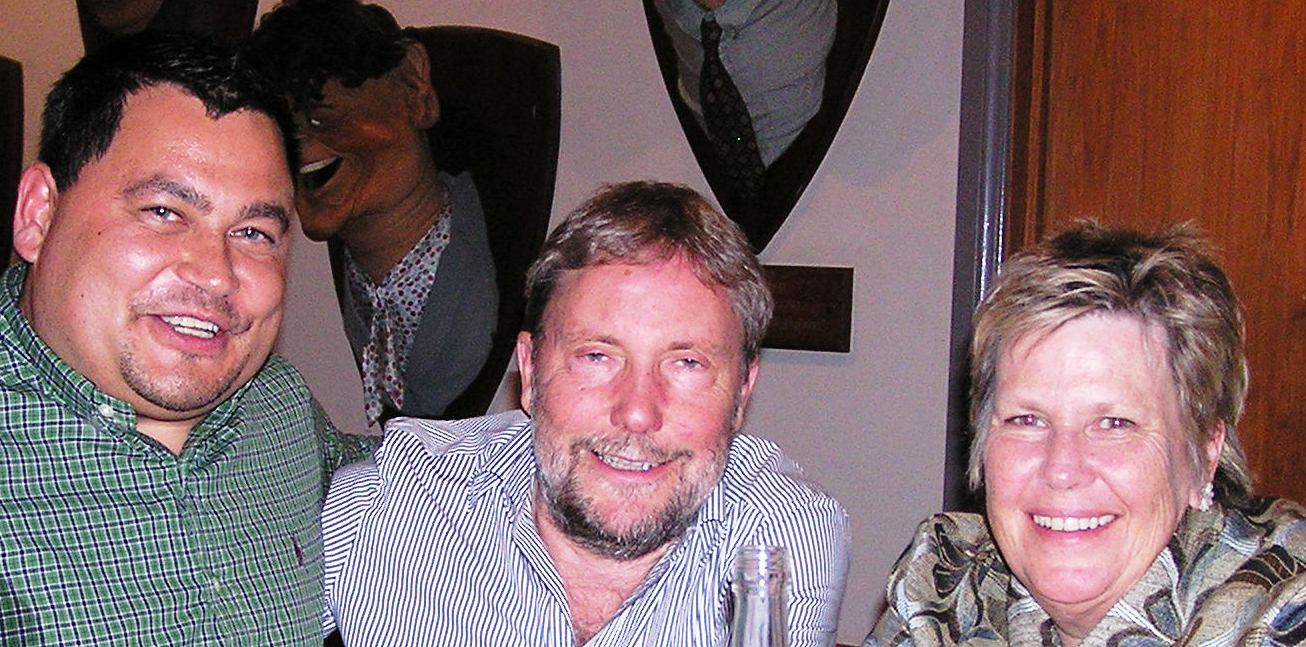 (L–R) Charles Chauvel, Paul Tolich and Moira Coatsworth